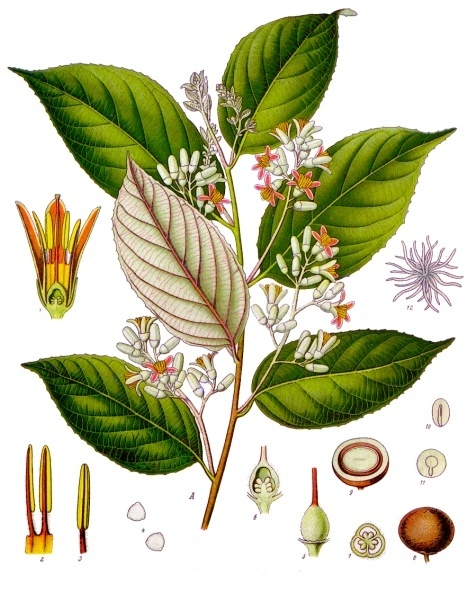 Benzoin resin tree. A flowering branch, nat. size; 1 flower in longitudinal section, enlarged; 2 stamen with a part of the stamen tube, wheel removal .; 3 single stamen, upper part, wheel removal .; 4 pollen wheel removal .; 5 ovary, wheel removal .; 6 the same in longitudinal section, wheel removal .; 7, the same in Querschnit, wheel removal .; 8 fruit, nat. size; 9 is the same in cross-section, wheel removal .; 10 seed in longitudinal section, wheel removal .; 11 same cross section, wheel removal.